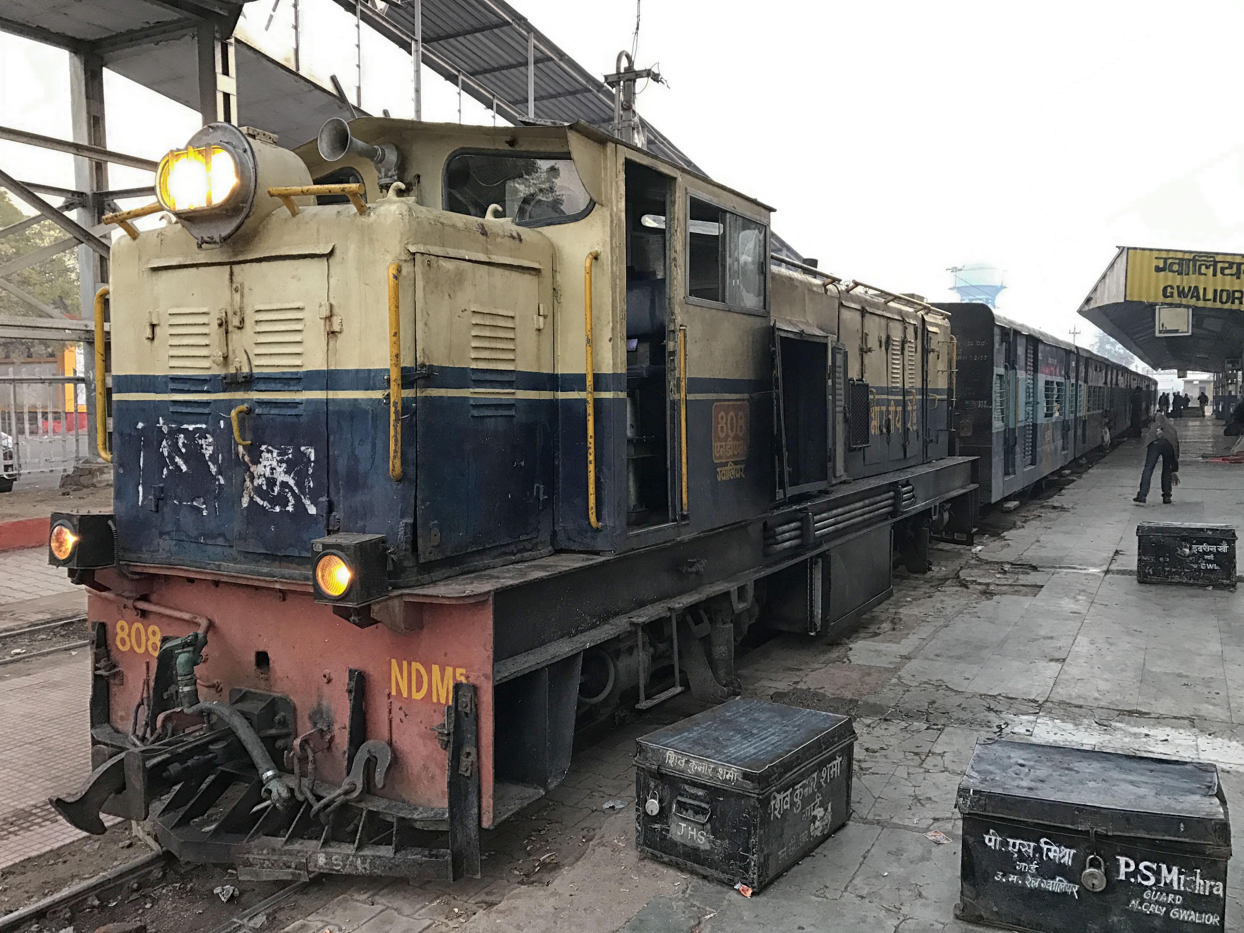 This pictures shows Gwalior Light Railway at Gwalior Railway Station